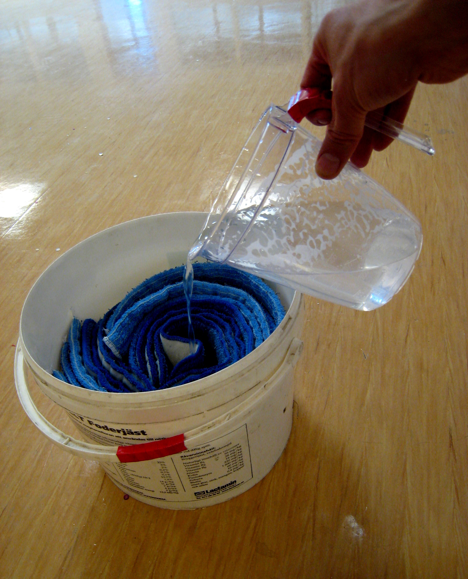 Manual pre-wetting of mops in bucket.